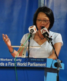 Sylvia Lim, chair of the Workers' Party of Singapore and a former Non-constituency Member of Parliament, speaking at a Workers' Party rally at Bedok Stadium for the Singaporean general election, 2011.